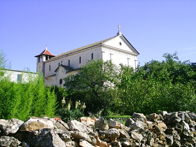 Town of Stari Grad on the Hvar Island, Croatia